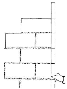 Diagram showing how to check the vertical spacing of cinder blocks when constructing a block wall. This diagram was taken from a U.S. Navy training manual, which the Navy identifies as document number "NAVEDTRA 14043" with a title of "Builder 3 & 2, Volume 1".